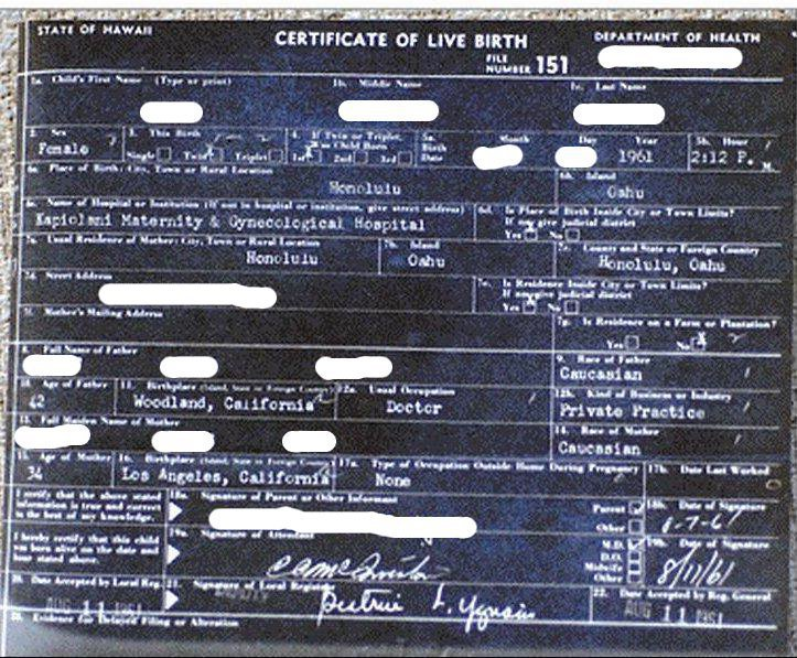 Birth certificate of one of two female twins born at the same hospital in Hawaii as Obama, one day after he was born in 1961. Included are the names of the hospital and attendant. This copyright-free public document was discussed in a newspaper article titled, "Hawaii officials confirm Obama’s original birth certificate still exists" in the Honolulu Advertiser on July 28, 2009. It is certified as a true and correct copy of the original record on file at the Research, Planning, and Statistics Office of the Hawaii State Department of Health with the certification dated May 5, 1966. Normal Wikipedia practice is to make images look better.[1] However, in this instance, keeping the image in the white on black negative style seemed advisable, so that the nature of the copying process is more obvious (i.e. copying from paper to film to paper at that time). Also, some info has been redacted, even though it is not redacted in the newspaper article.